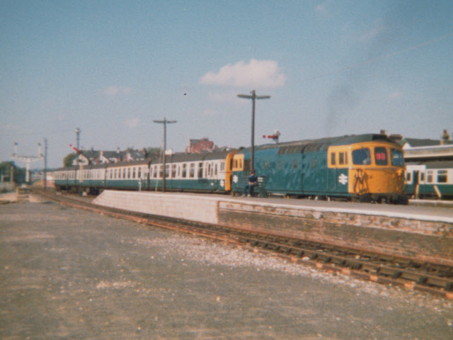 Weymouth station, before electrification The line from Bournemouth to Weymouth was only electrified in 1988. For twenty years before that, the electric sets that worked from London had to be hauled by a diesel for the last part of their journey. The loco would then propel the set back to Bournemouth. Here, 33102 propels its train out of Weymouth.